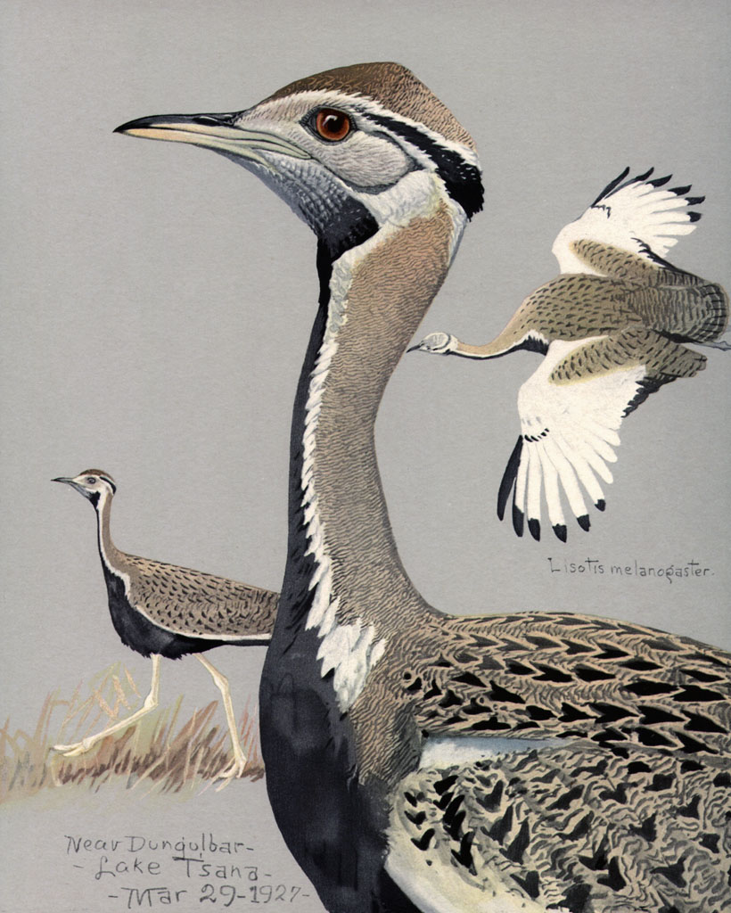 Black-bellied Bustard, Black-bellied Korhaan, Eupodotis melanogaster (syn. Lissotis melanogaster), offset reproduction of watercolor